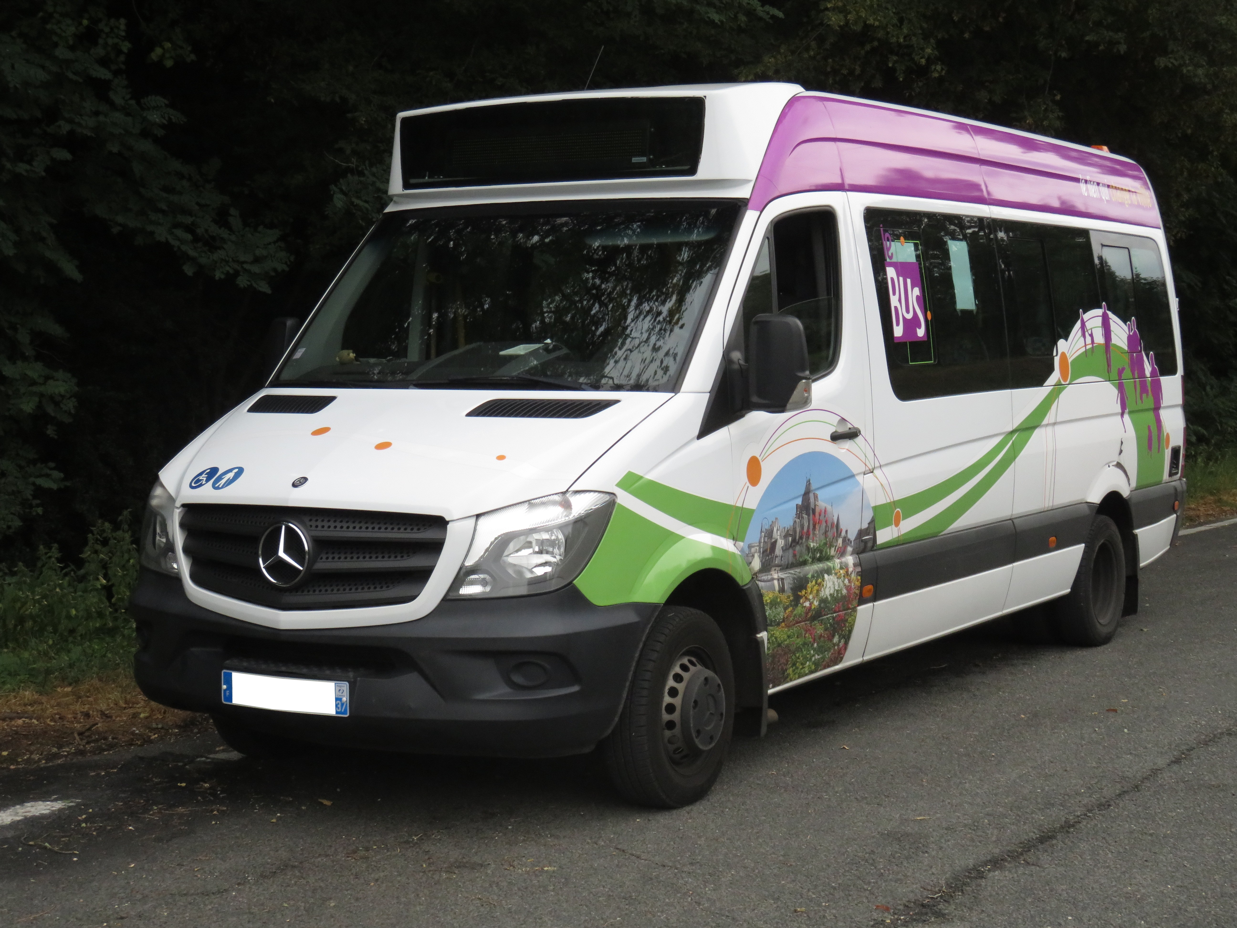 A Mercedes-Benz Sprinter City (city of Amboise) parked in the Boulevard Saint-Denis Hors (Amboise, France) on August 30, 2018.